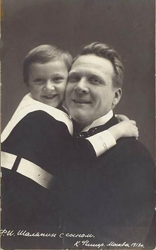 Russian bass, Feodor Chaliapin (1873 - 1938)